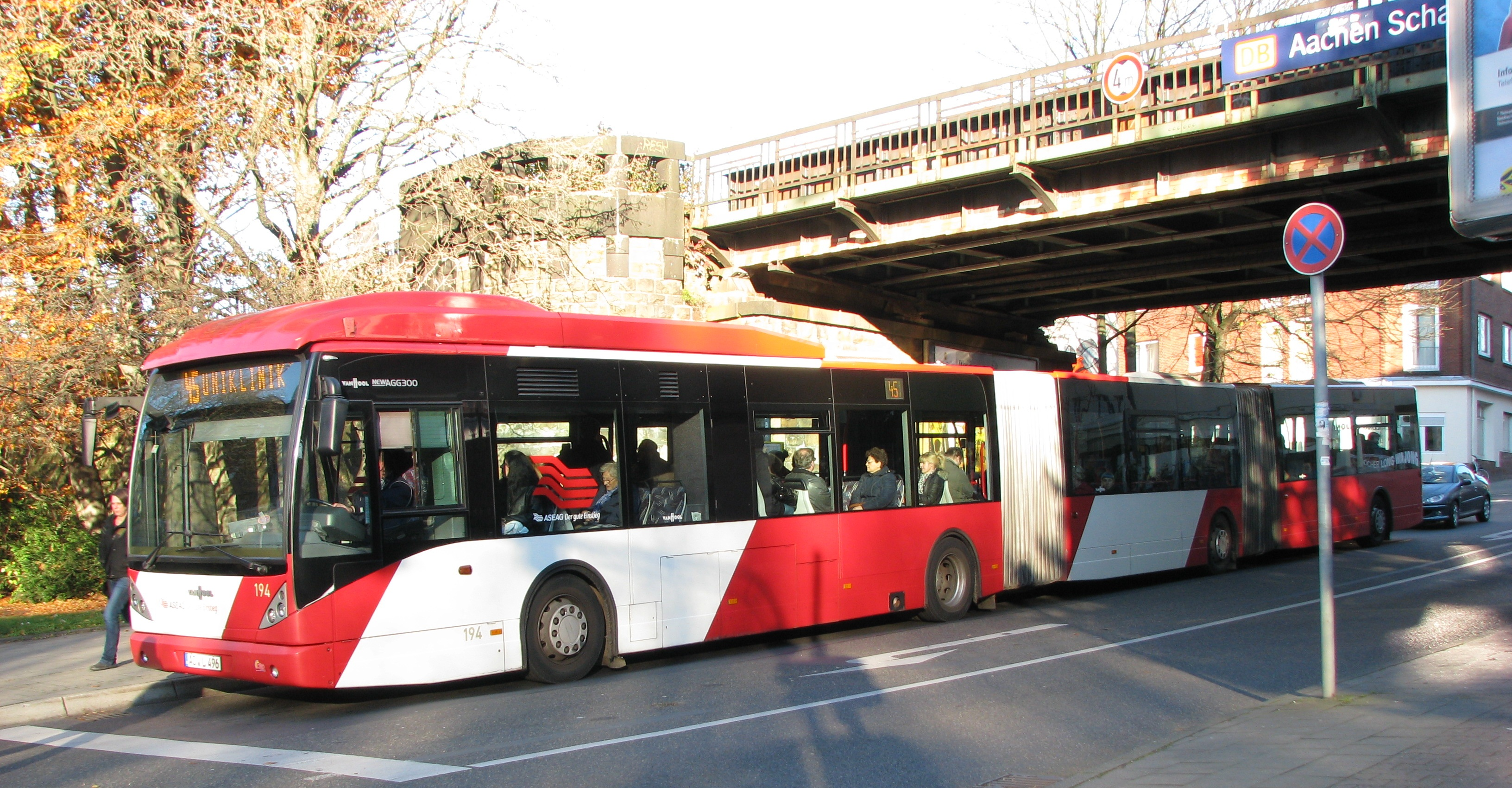 Bi-articulated bus Van Hool newAGG300 (Aachen dialect: Öcher Long Wajong) from ASEAG in Aachen at the bus stop Aachen Schanz as line 45 to university hospital.